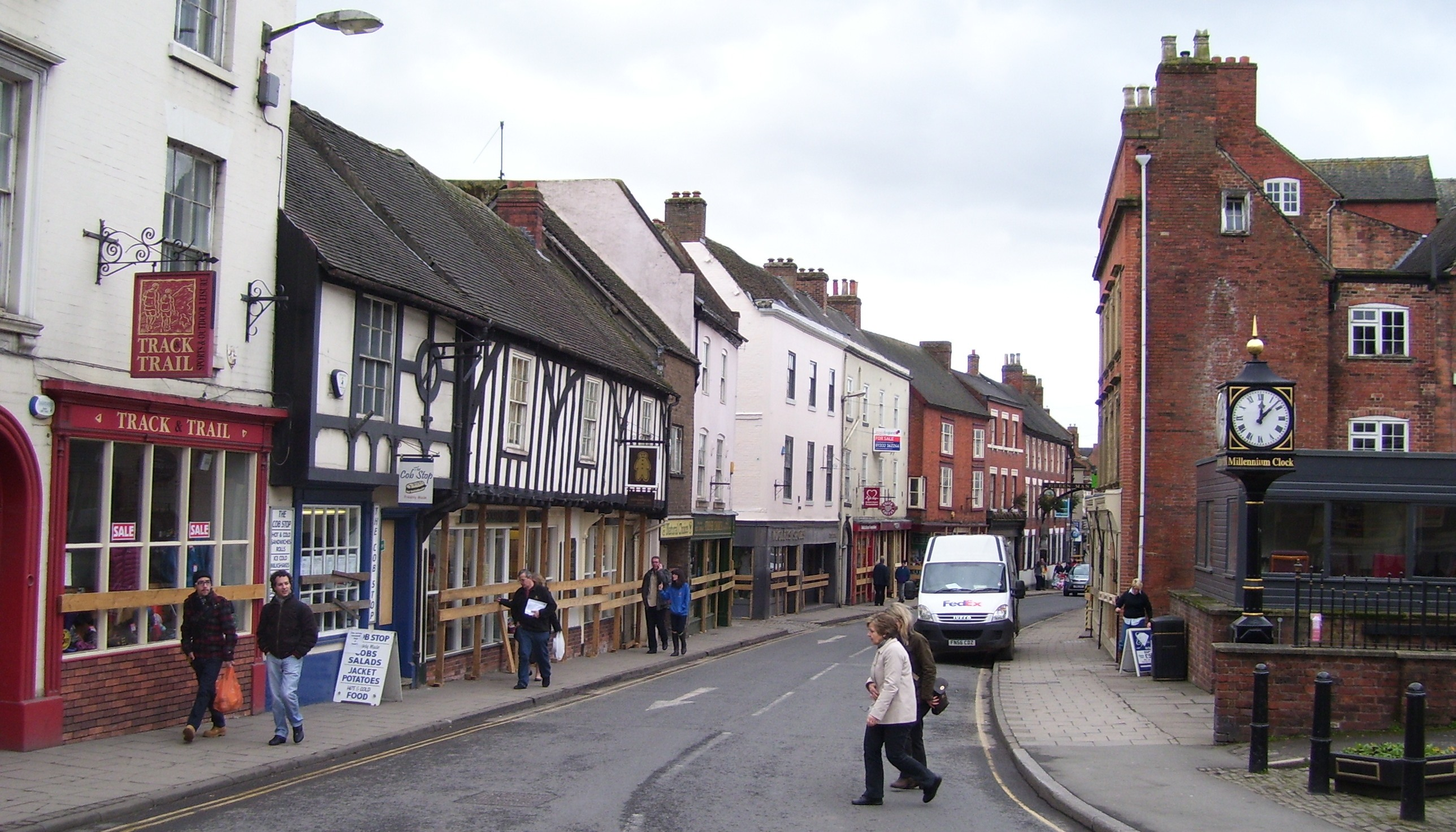 Shops in Ashbourne boarded up before Royal Shrovetide Football games commence.